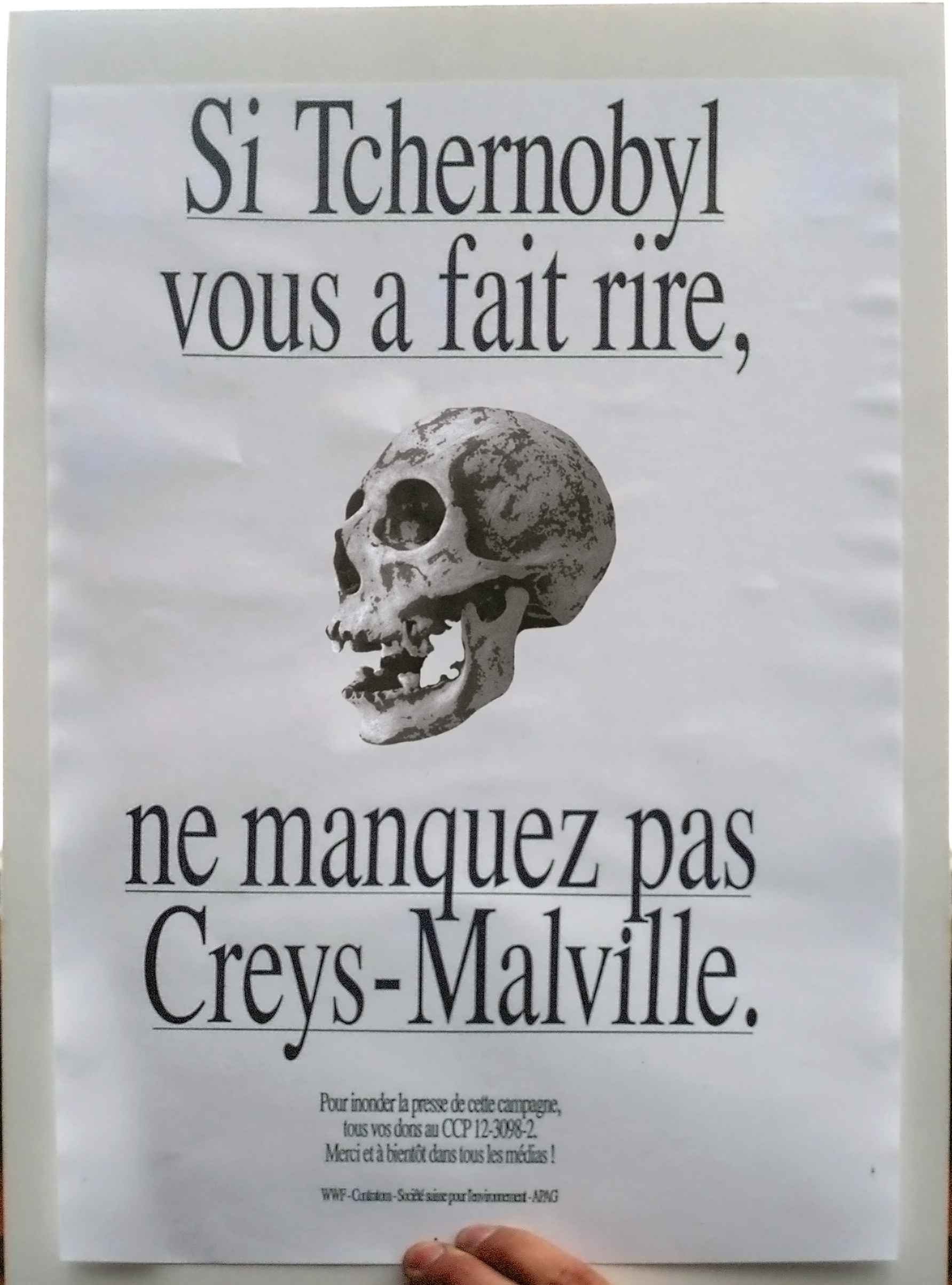 Poster "If Chernobyl made you laugh, don't miss Creys-Malville."